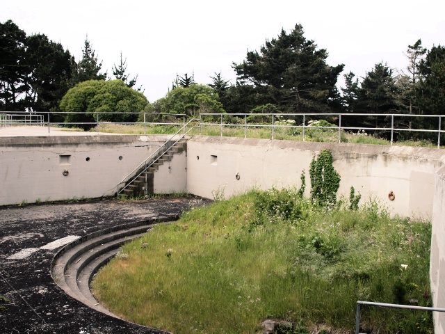 Battery James Chester — at Fort Miley Military Reservation, on the Pacific Coast in San Francisco, California, USA